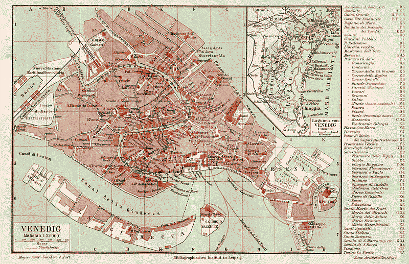 German map of Venice